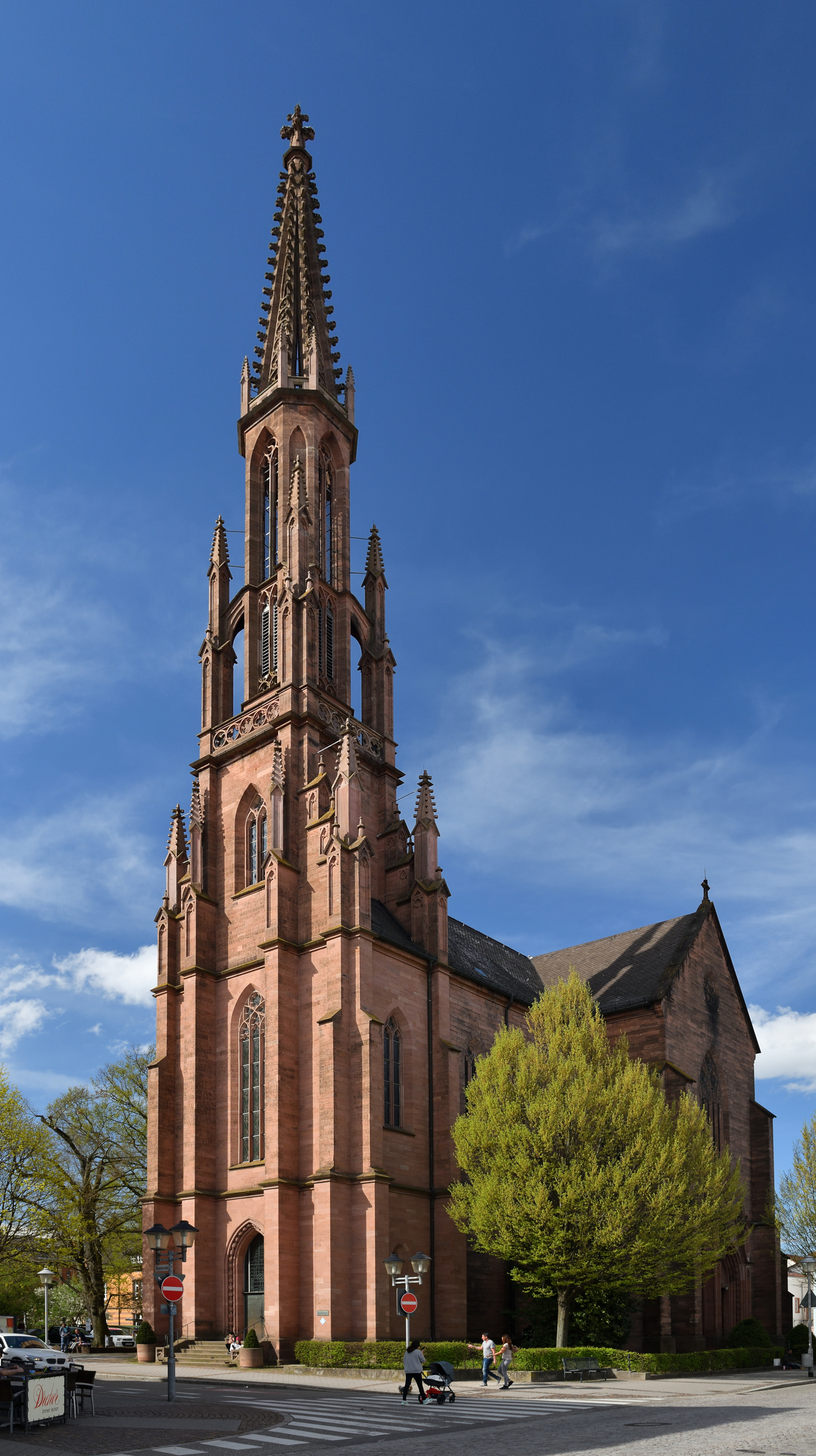 Offenburg: Protestant City Church